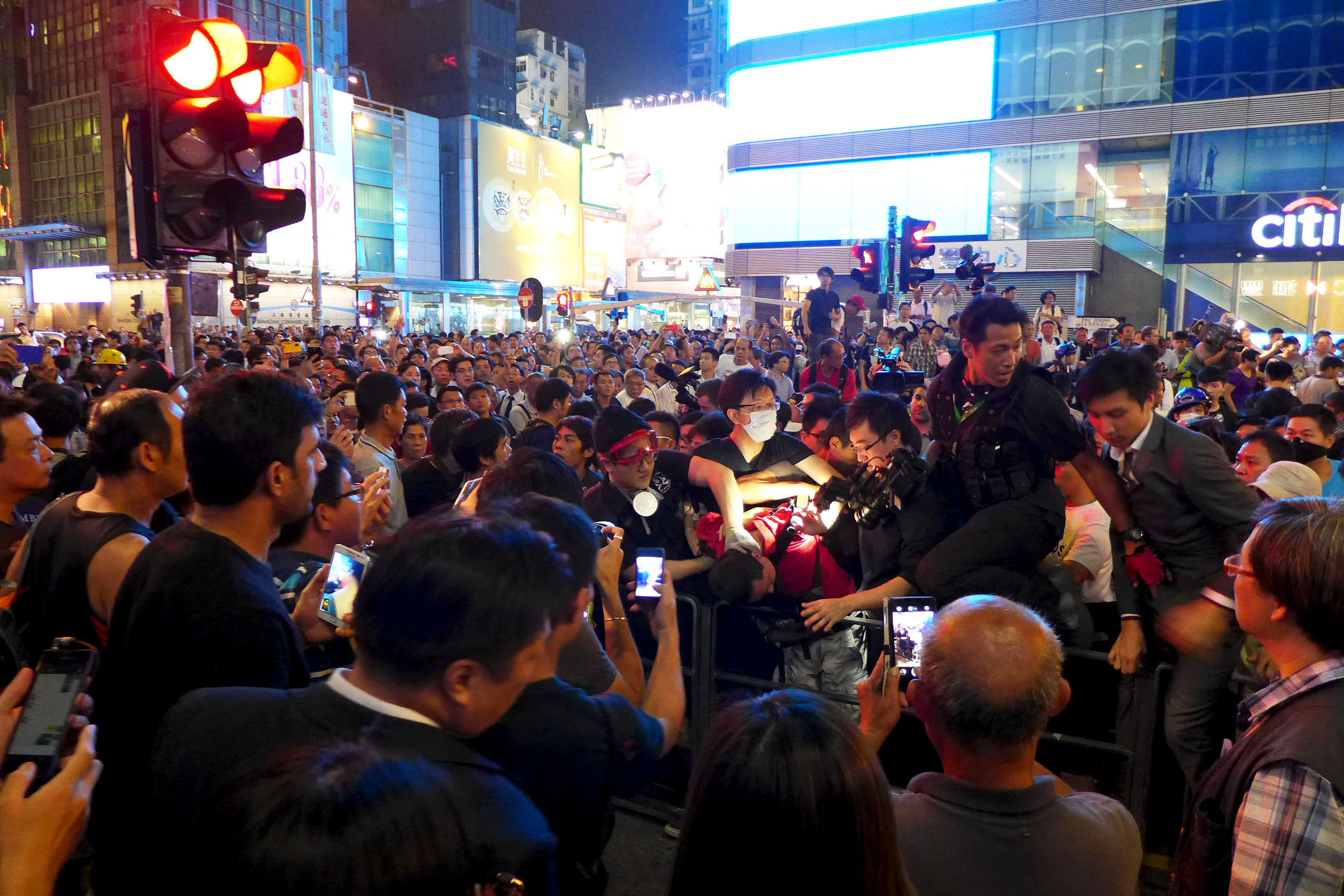 Mong Kok Anti-Occupy Central People threw a glass bottle filled with apparently inflammable liquid